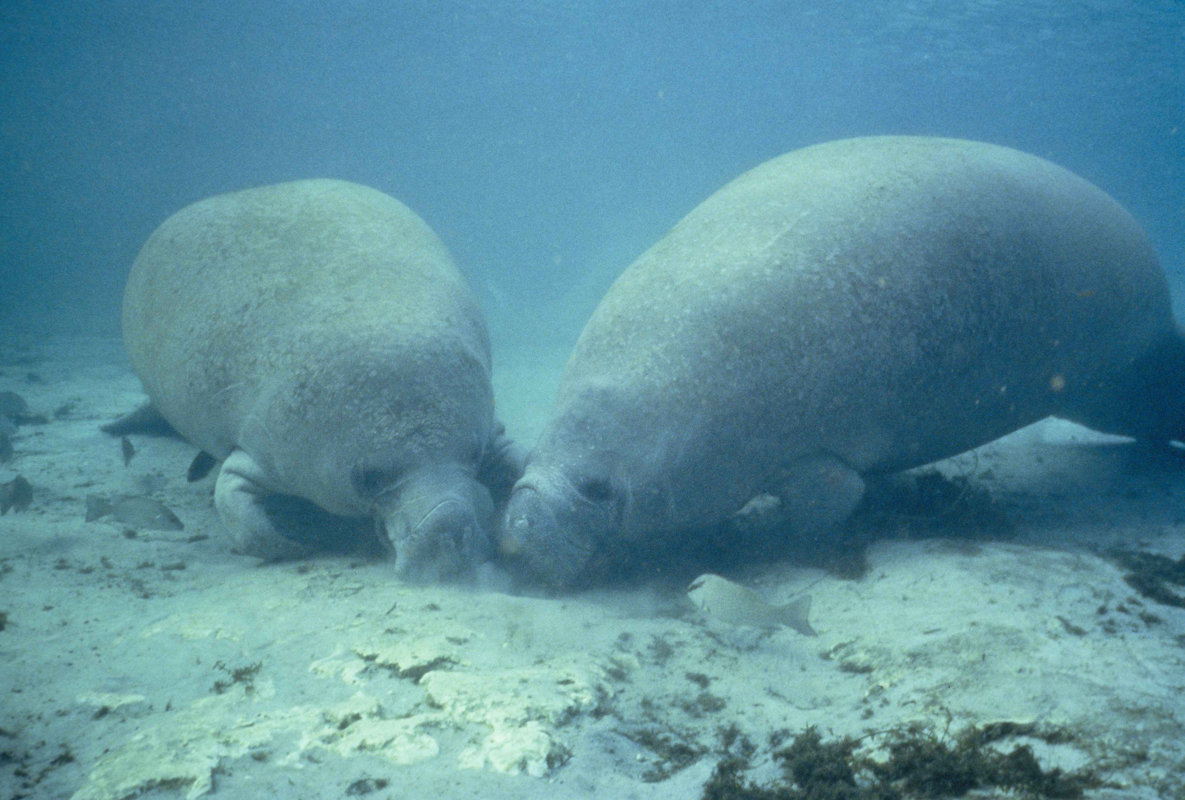 Image title: Two manatee rooting for food in bottom sand Image from Public domain images website